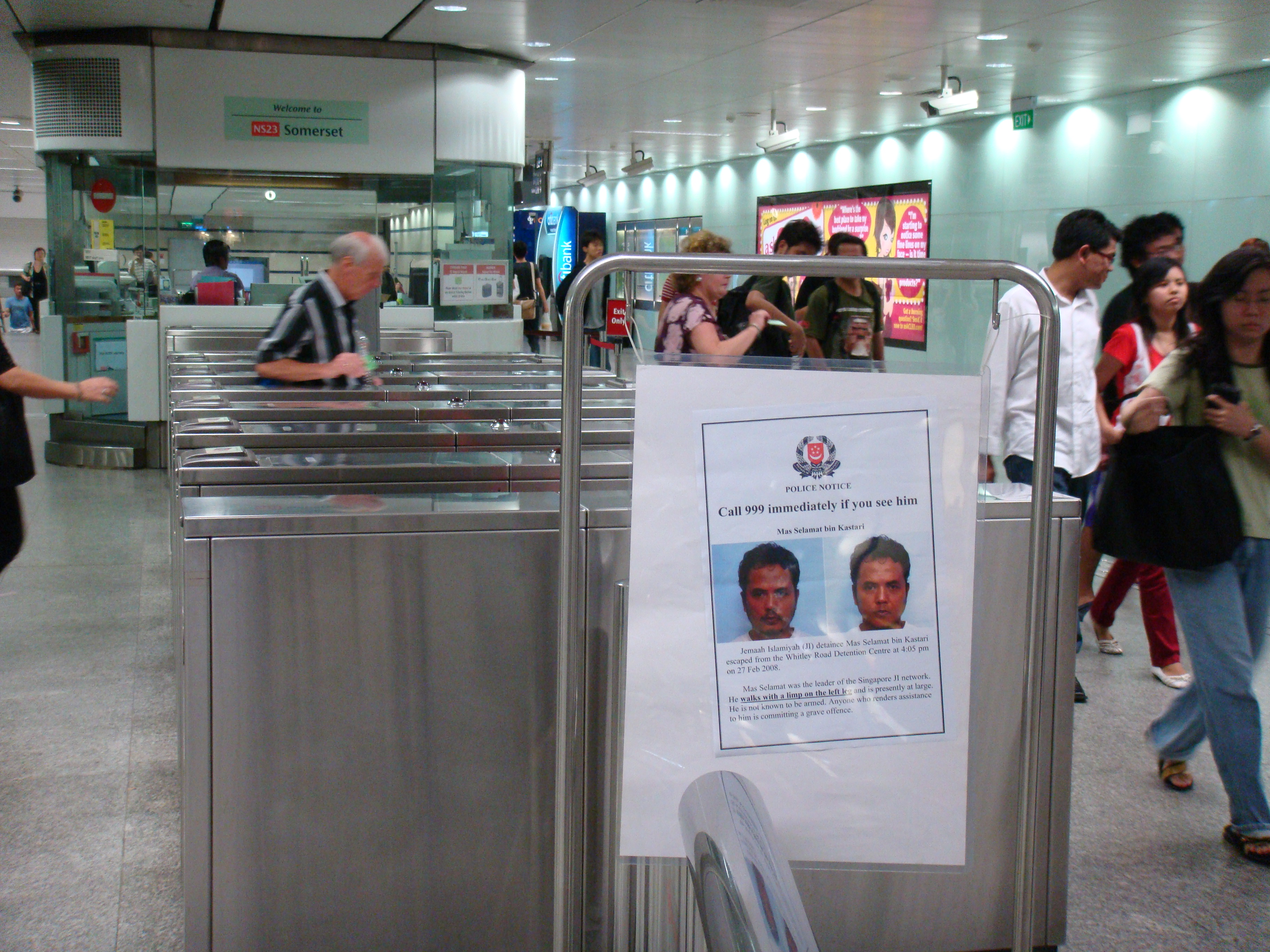 Wanted poster of Mas Selamat bin Kastari at Somerset MRT Station, Singapore.